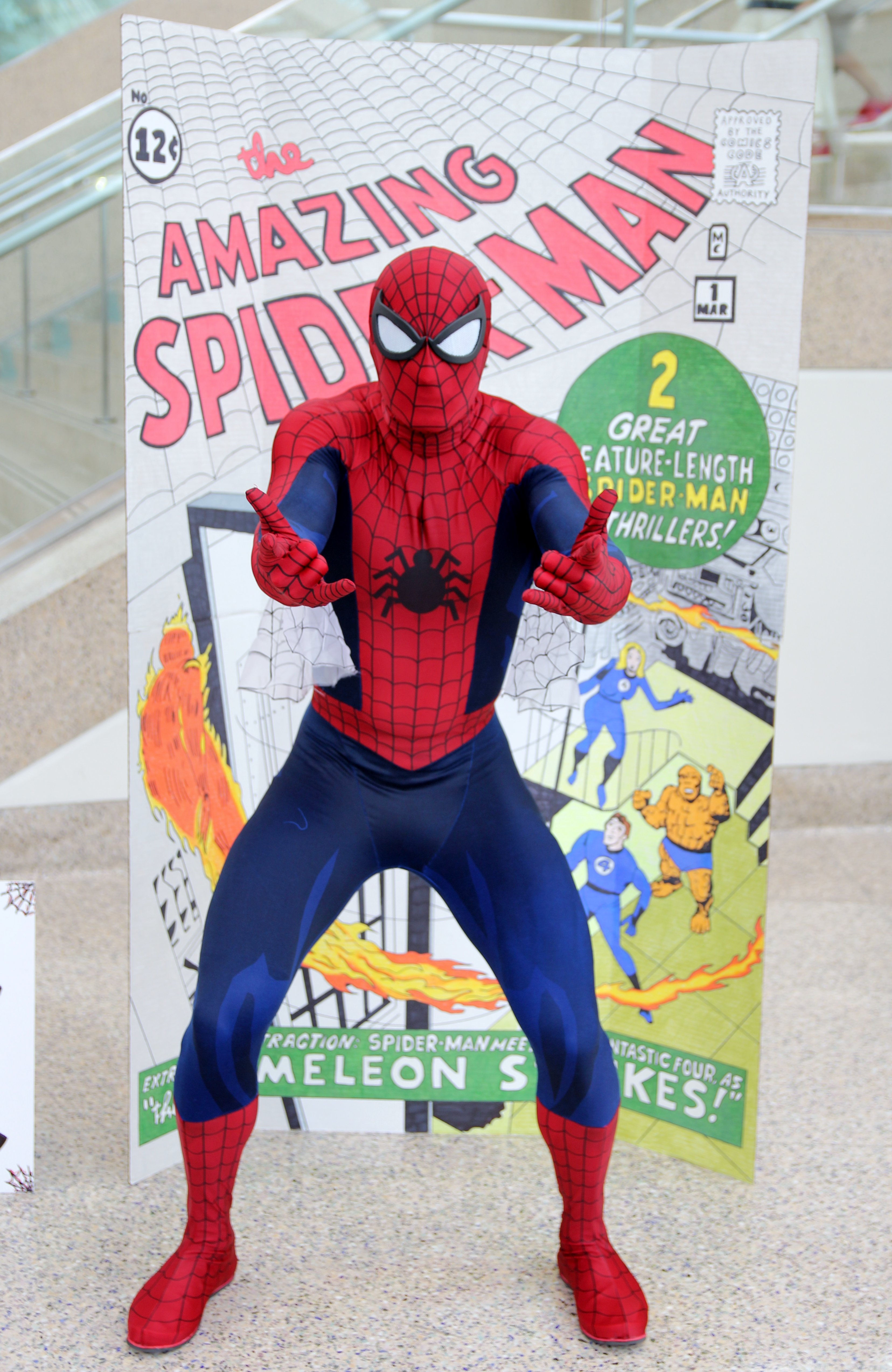 Tim Hurles cosplaying as Spider-Man, in front of an enlarged cover of Amazing Spider-Man #1 (March 1963), at Stan Lee's Comikaze 2014.